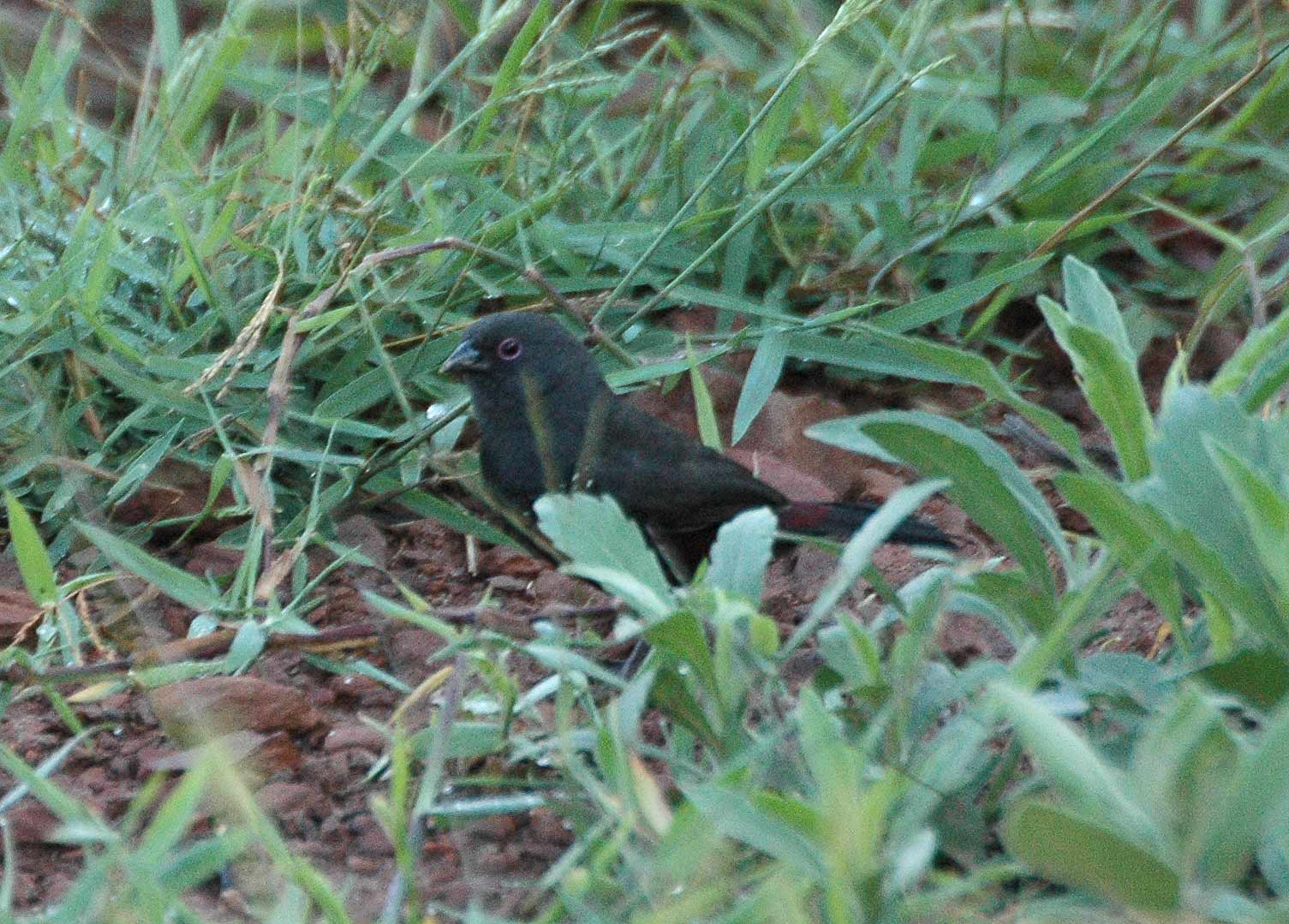 Dusky Twinspot (Euschistospiza cinereovinacea) Mosese, Bwindi NP, SW Uganda